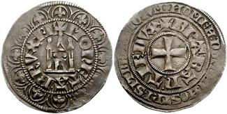 Lowlands, Brabant. John II of Brabant. 1294-1312. AR Gros au Châtel (25mm, 4.11 gm). Brussels mint. Struck circa 1300. Châtel tournois, floral border of twelve embedded lis Cross. De Mey, Brabant 152; H. van Houdt G226. see: en, fr, nl, sv